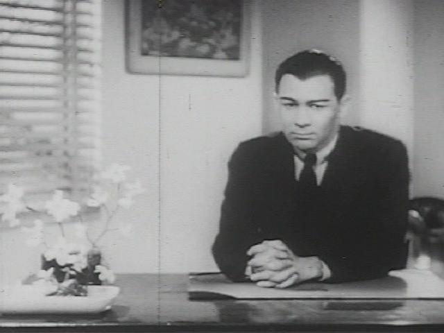 Opening shot of the "Japanese" narrator of My Japan.